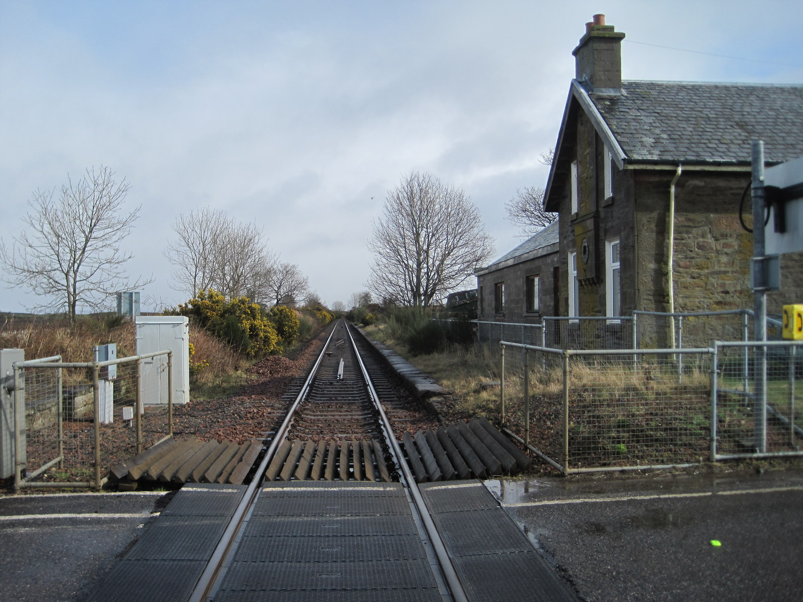 Allanfearn railway station (site), HighlandOpened in 1855 as 'Culloden' by the Inverness & Nairn Railway, later part of the Highland Railway, on what is today the line from Aberdeen to Inverness, this station closed in 1965. It had been renamed Allanfearn in 1898. View north east towards Dalcross and Aberdeen. A 1906 map shows a double line here with two platforms. There was also a small goods yard behind the camera position.